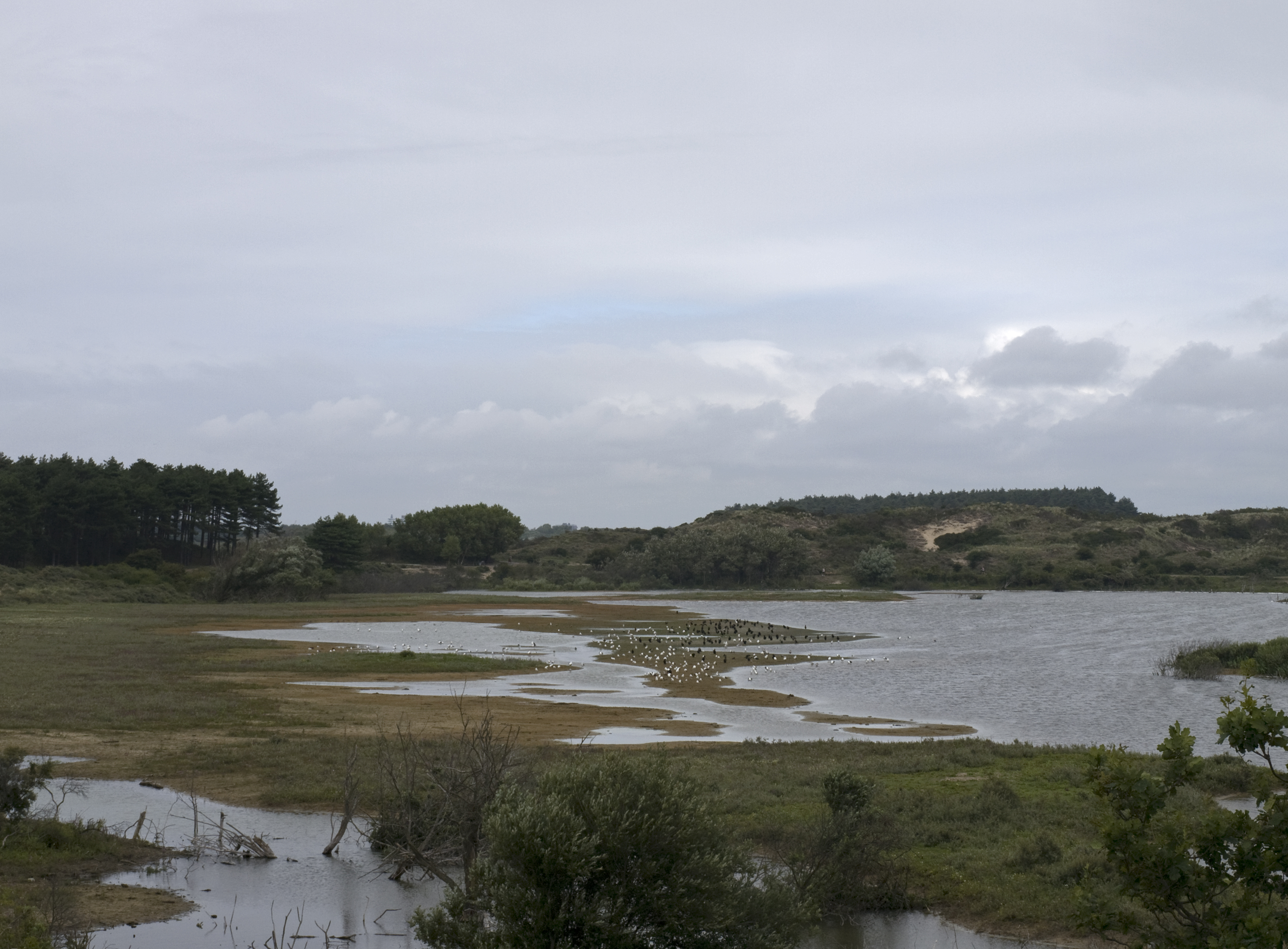 Het Vogelmeer, NP Zuid-Kennemerland. A bird refuge.